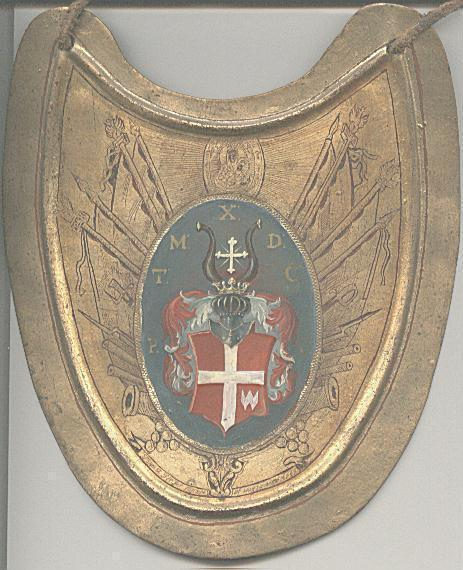 Dębno Coat of Arms